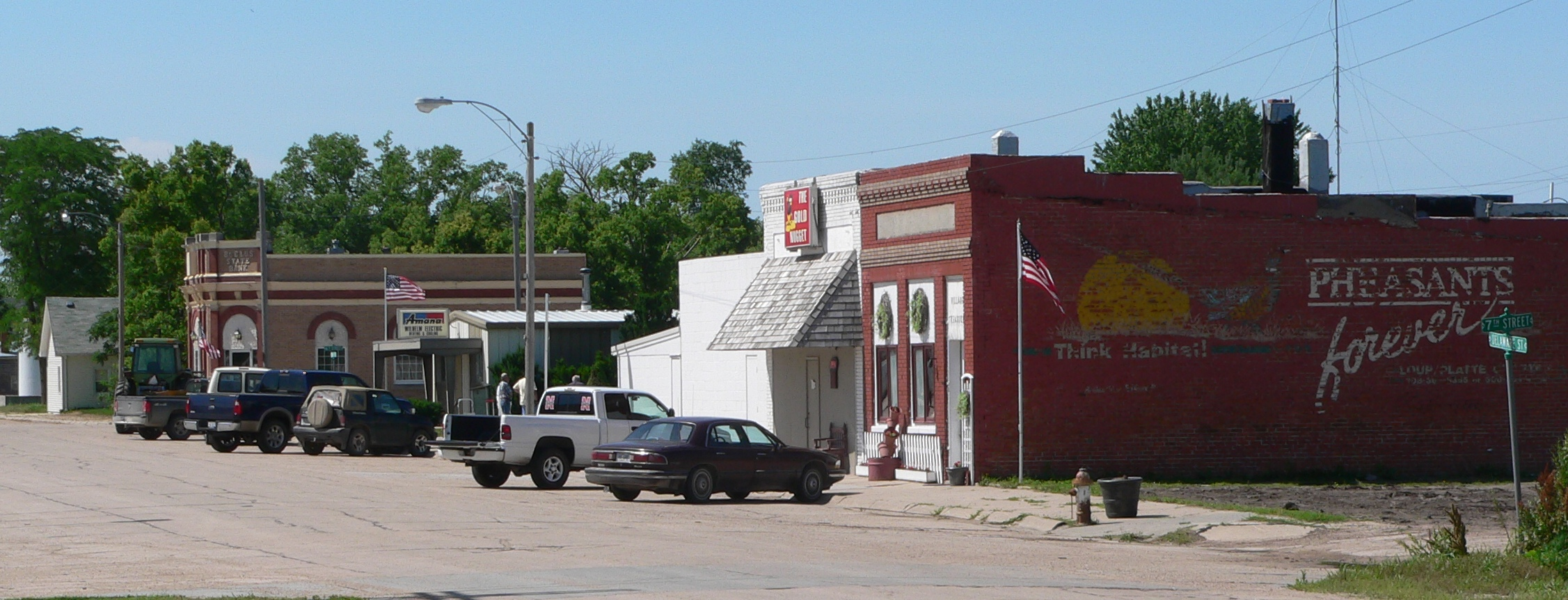 Downtown Boelus, Nebraska: west side of Delaware Street, seen from north of 7th Street.